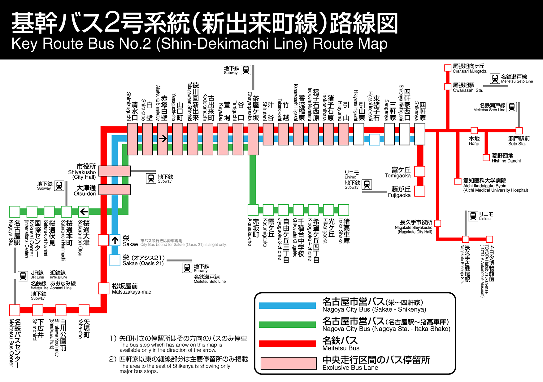 名古屋市の基幹バス新出来町線の路線図 (Route map of Key Route Bus Shin-Dekimachi Line in Nagoya, Japan)